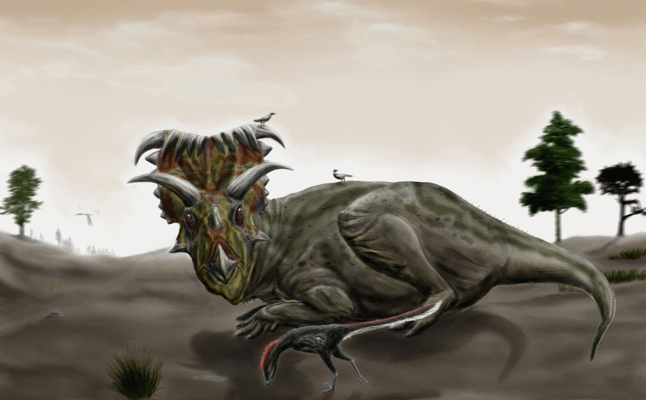 The chasmosaurine Kosmoceratops is resting when it is disturbed by Talos sampsoni in Laramidia. Match proportions shown in original descriptions:[1][2]